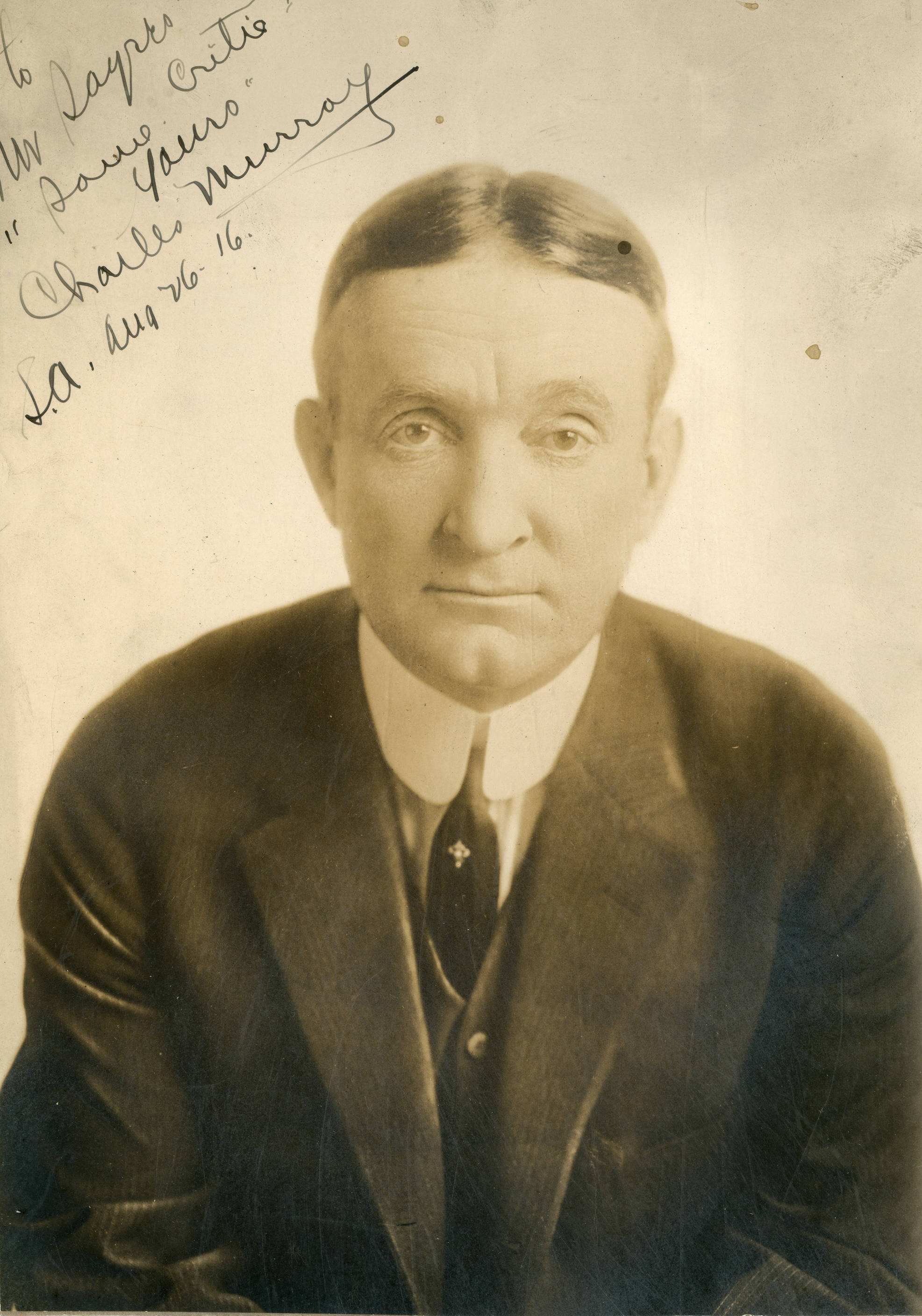 Charles Murray, stage actor Subjects: actors